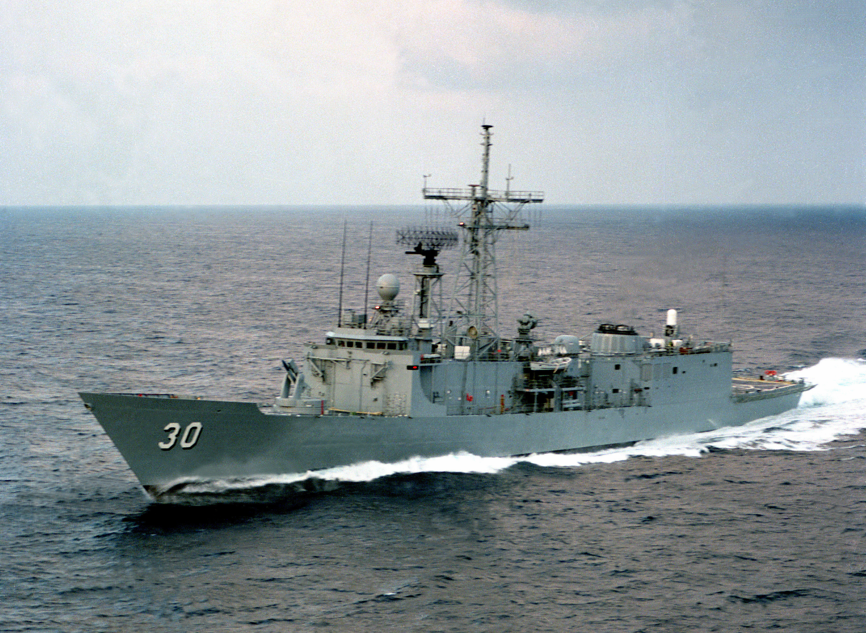 The U.S. Navy guided missile frigate USS Reid (FFG-30) underway during sea trials.